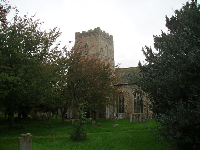 Part of All Saints' parish church, Thorndon, Suffolk, seen from the southeast